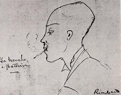 Arthur Rimbaud was drawn skull shaved in Ernest Delahaye's letter sent to Paul Verlaine, in 1875 December (manuscript preserved at the Bibliothèque littéraire Jacques Doucet, 8 place du Panthéon 75005 Paris).